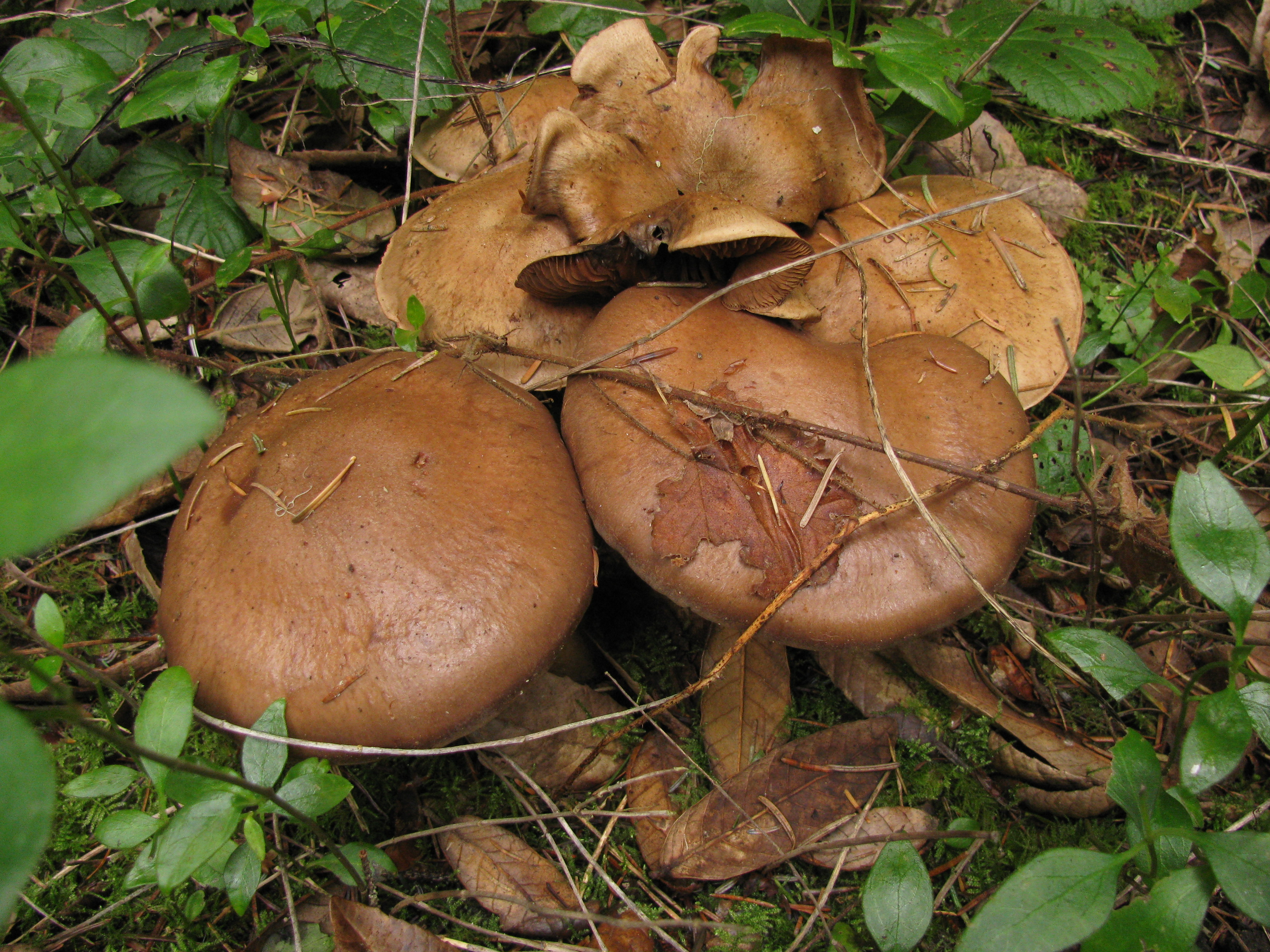 Fruit bodies of the fungus Cortinarius infractus Berk. Specimens photographed in Caspar, Mendocino Co., California, USA.